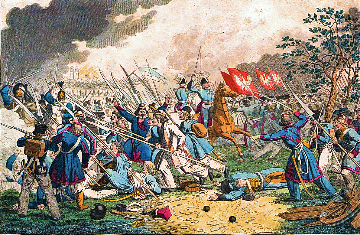 Battle of Ostrołęka 1831